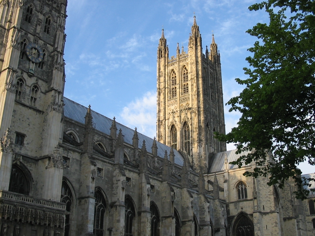 Canterbury cathedral